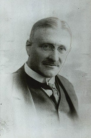 Anders Jørgen Christian Nordahl-Petersen (1871-1940), Danish writer, editor, and politician